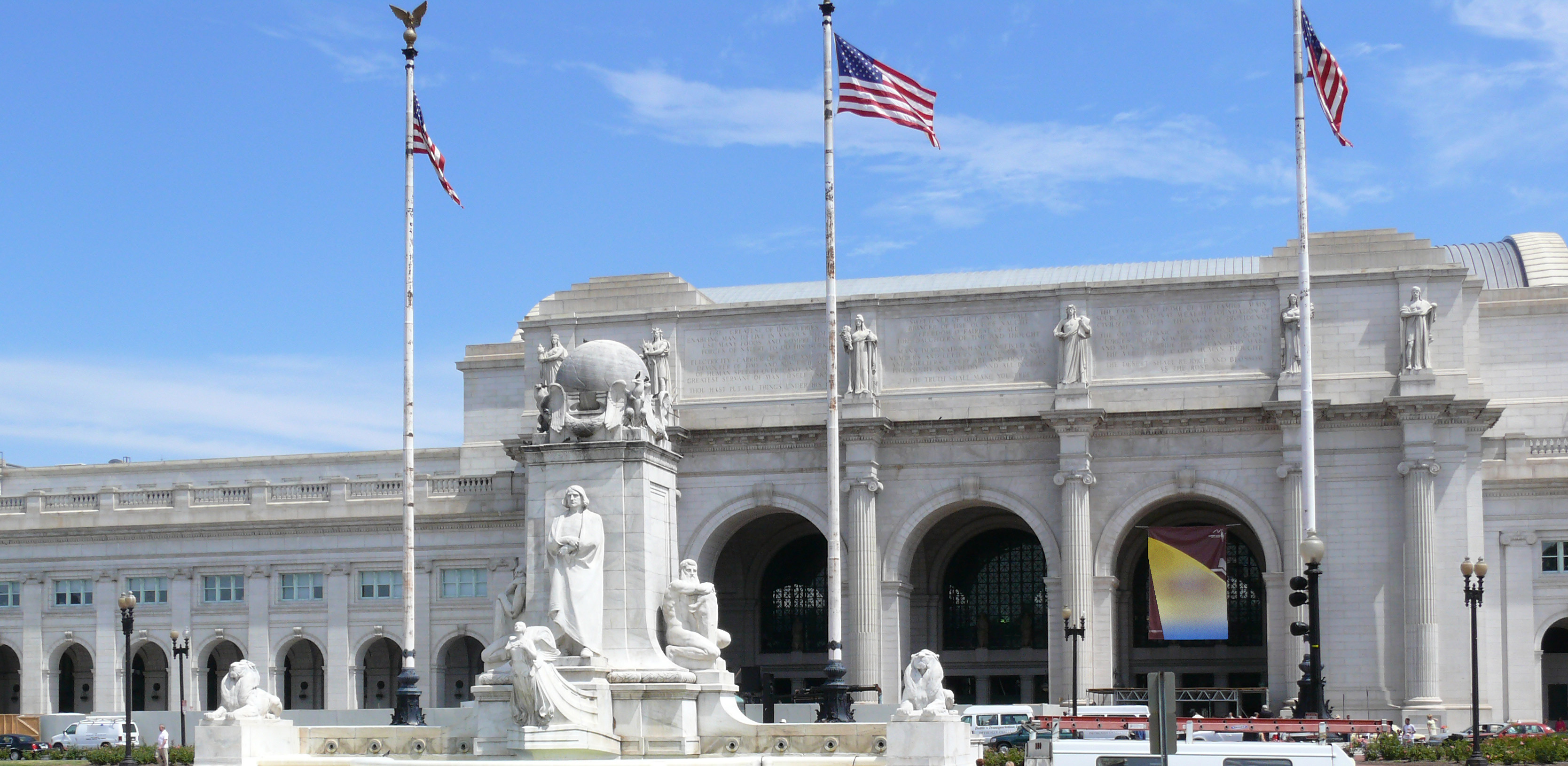 Christopher Columbus monument by Lorado Taft (dedicated 1912) in Washington DC on Columbus Circle in front of Union Station.